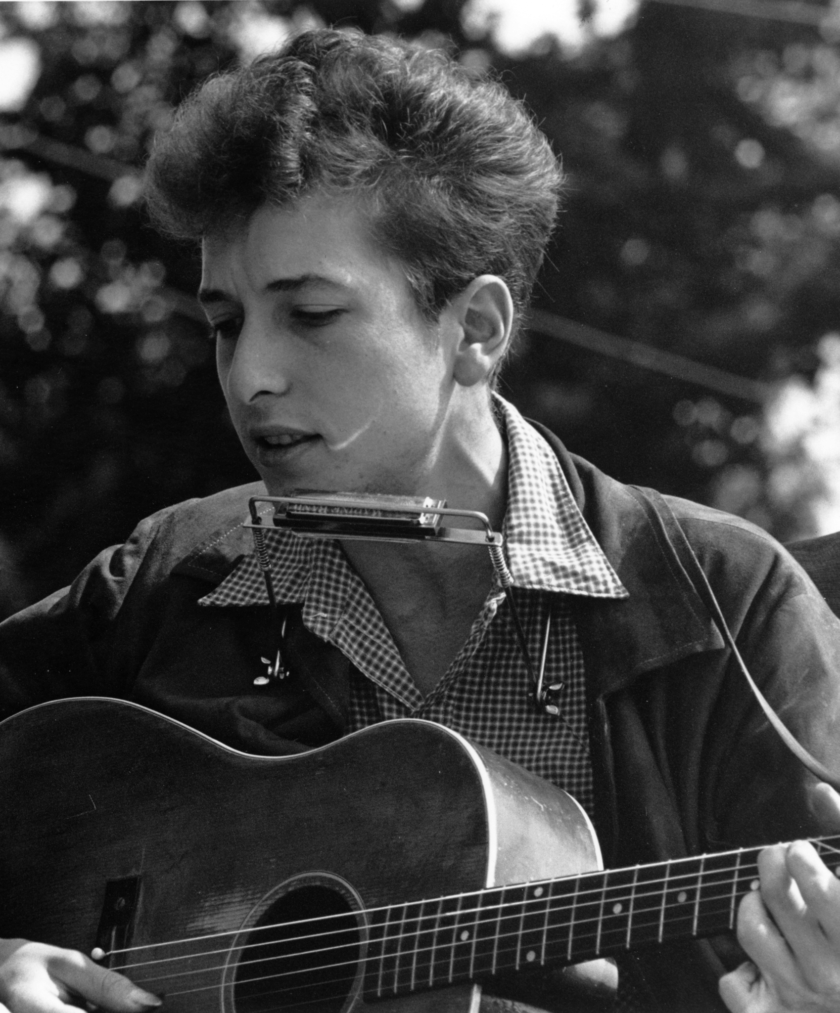 Civil Rights March on Washington, D.C.; close-up view of vocalist Bob Dylan, August 28, 1963